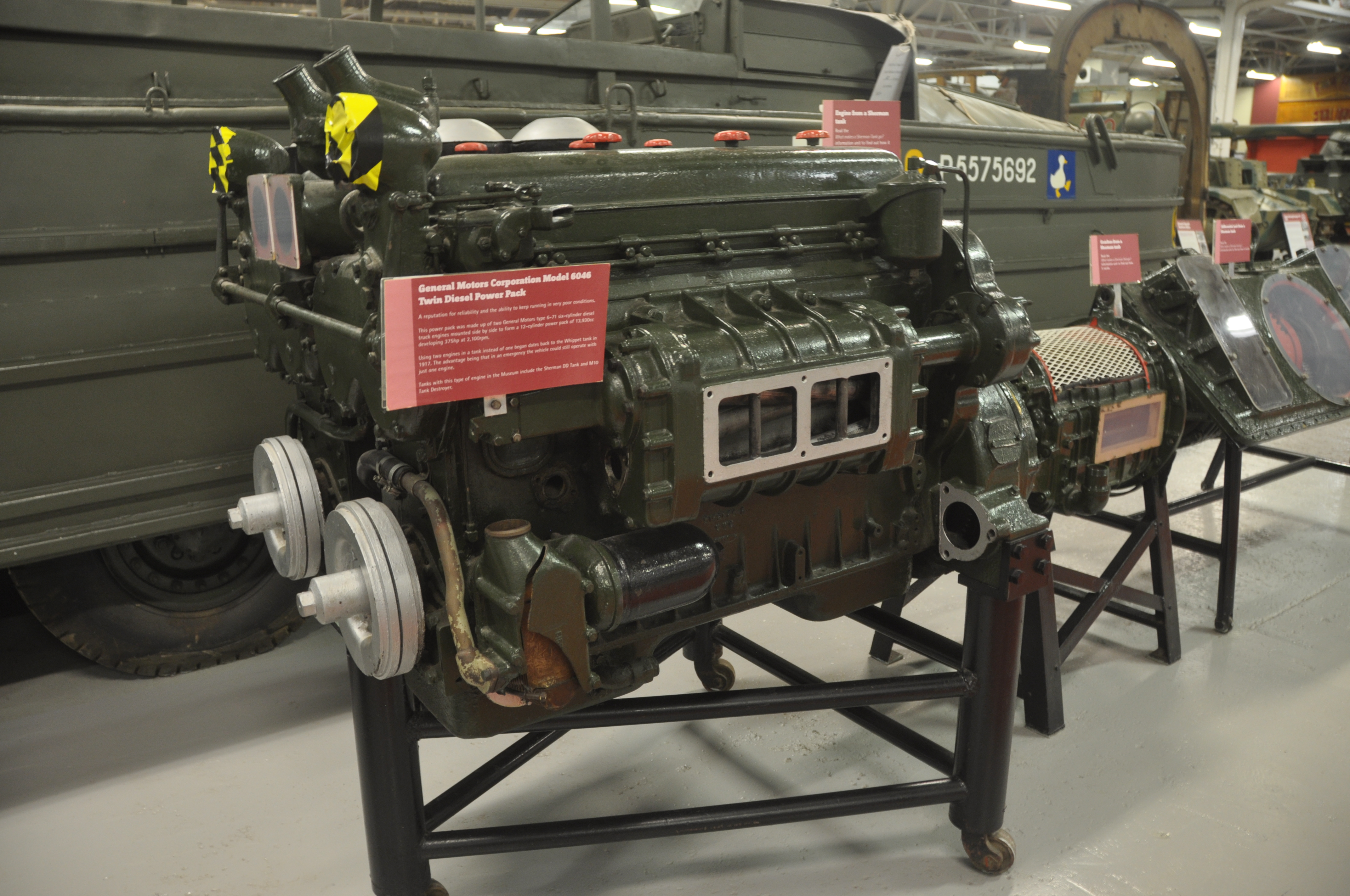 The Tank Museum